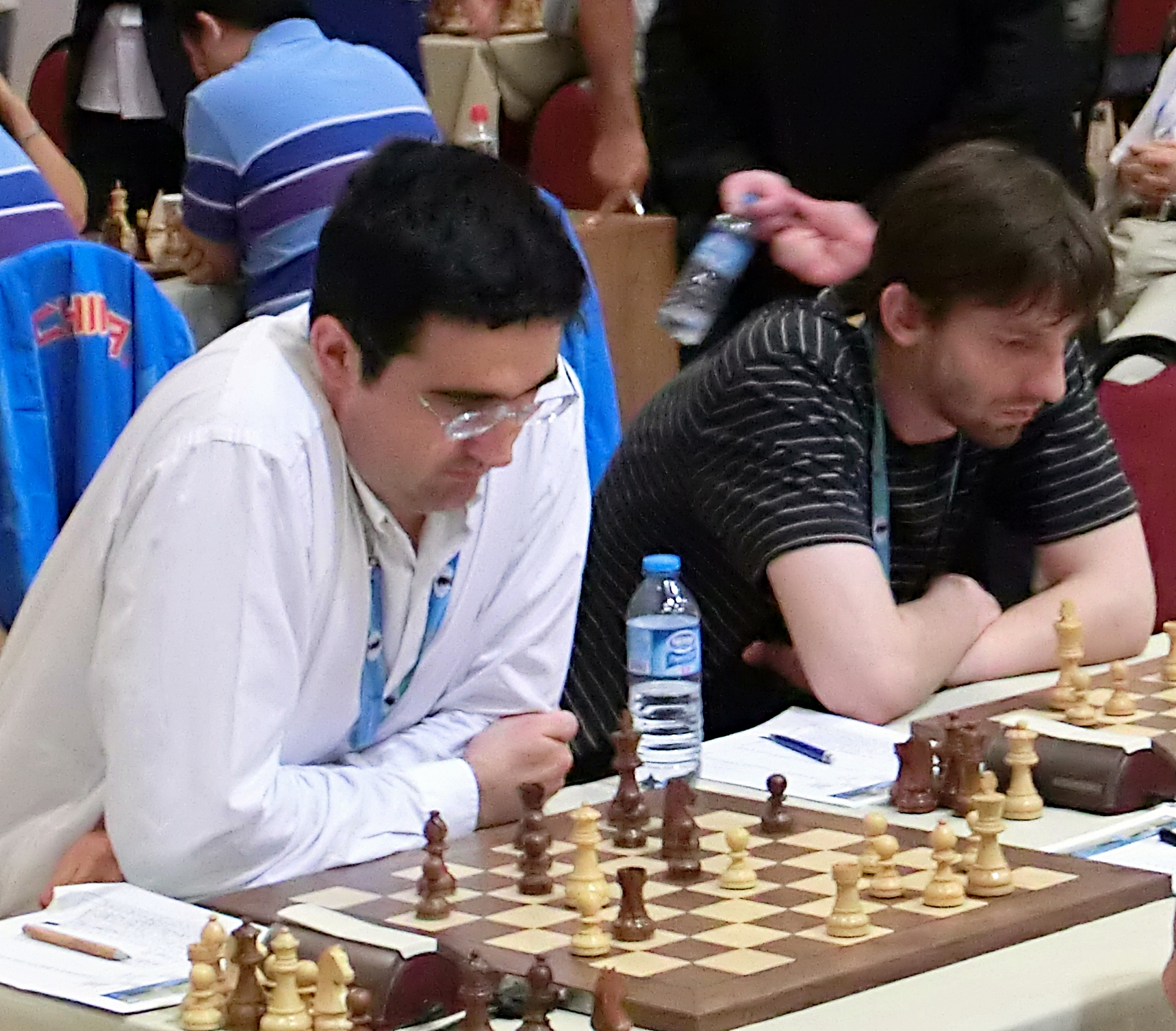 Vladimir Kramnik and Alexander Grischuk playing for the Russian team at the 2012 Chess Olympiad in Istanbul